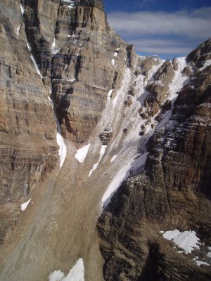 Abbot Pass, between Mount Victoria and Mount Lefroy. The Abbot Hut is visible slightly left of centre in the pass, as a tiny square bump. :-) I took this picture. And hereby license its use under Creative Commons. If you'd like a higher resolution copy of the photo, please get in touch with me.